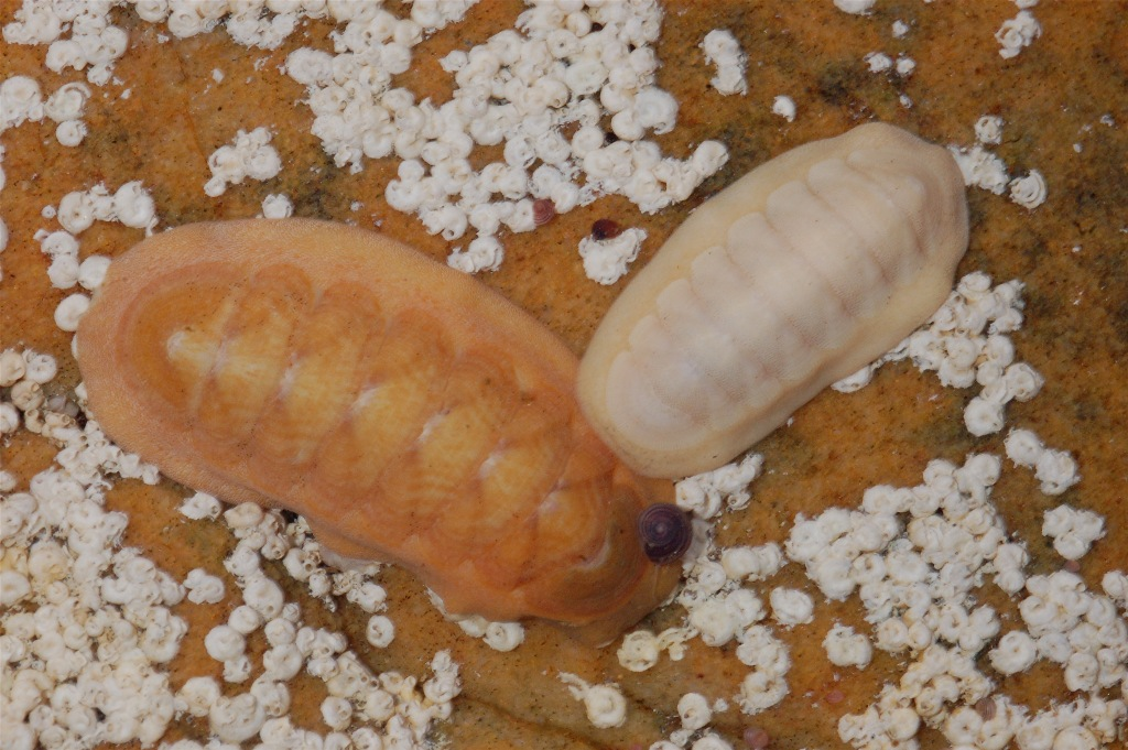 Ischnochiton spp. (species unidentified)